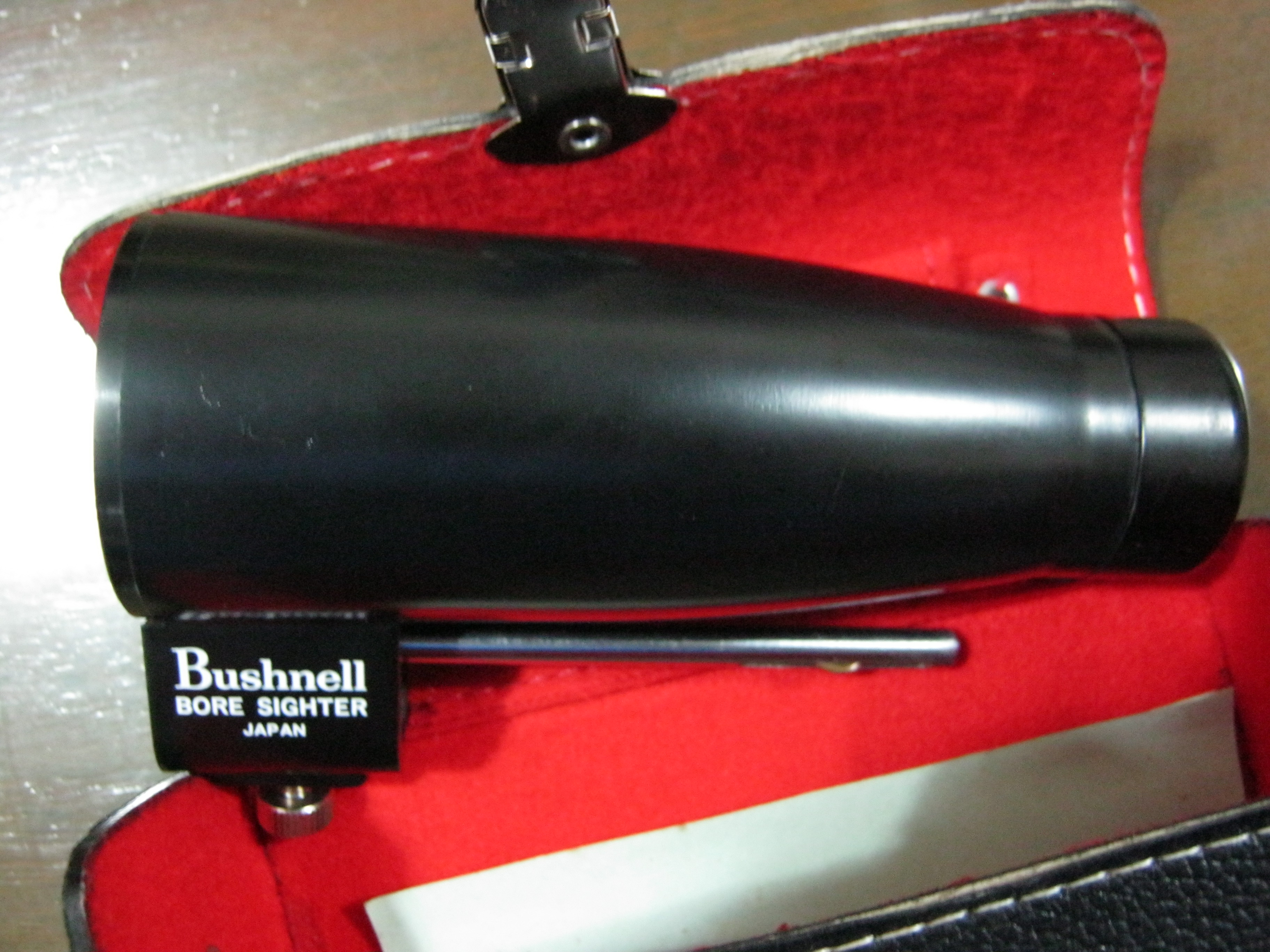 Bushnell Bore Sighter; .22 caliber arbor is the metal rod fixed under the black optical head. Leather pouch is lined with red felt.